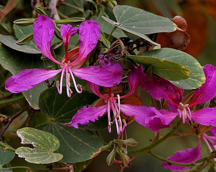 Kaniar, Butterfly tree, Germanium tree, Orchid tree, Sona or Karali Bauhinia purpurea in Hyderabad, India.